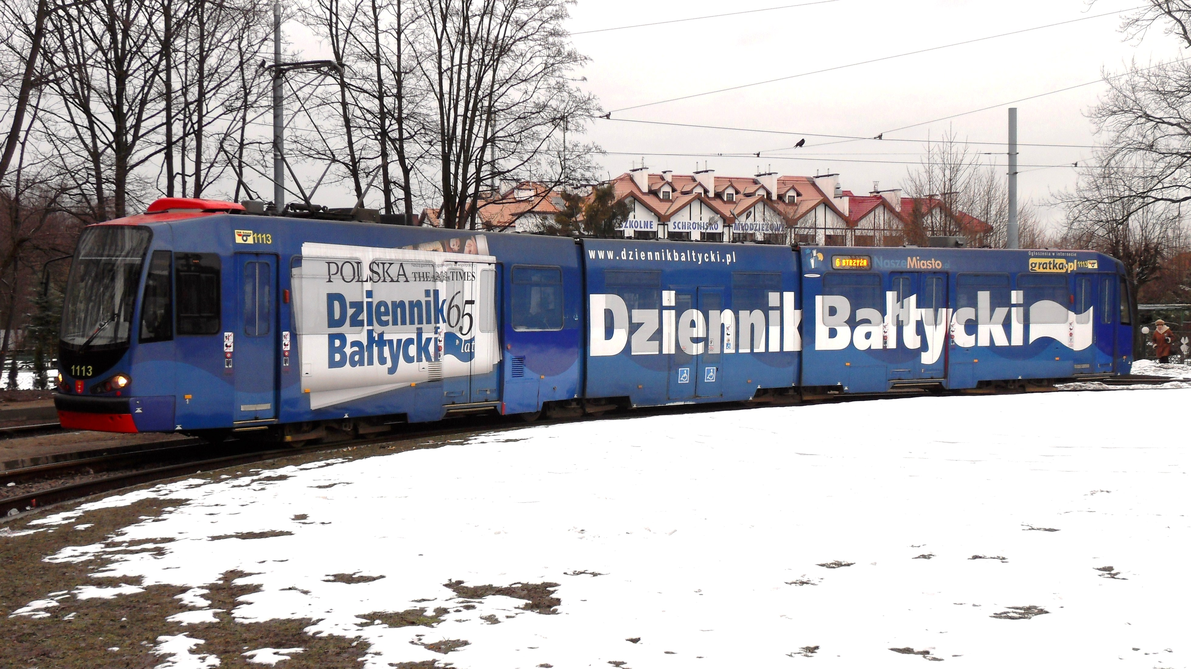 A Moderus Beta MF 01 tram in Gdańsk - a newspaper "Dziennik Bałtycki" coloured.